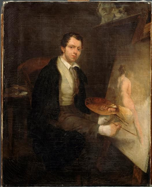 Self-portrait